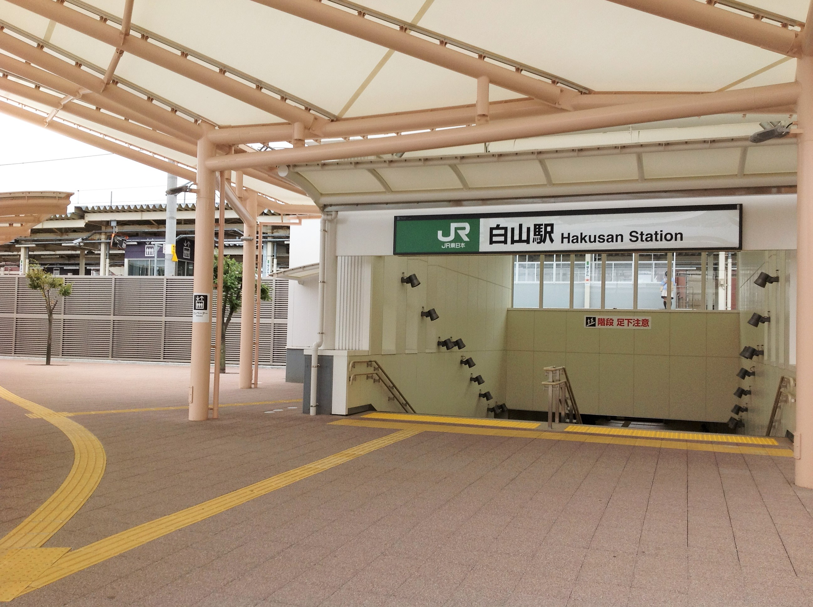 Hakusan Station on the Echigo Line in Niigata Prefecture, Japan